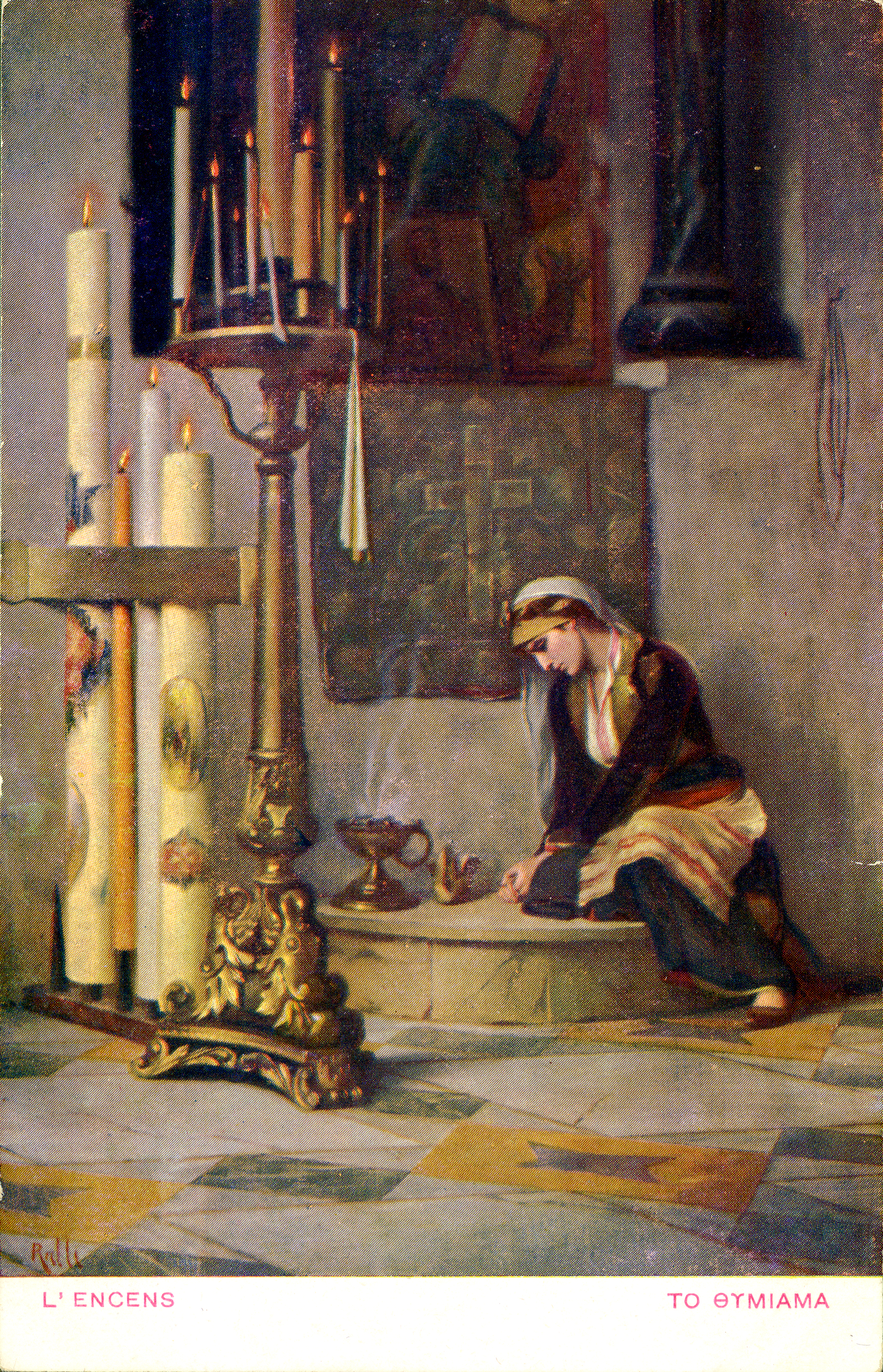 The incense. Postcard published by Aspiotis. Reproduction of a painting by Theodoros Rallis.